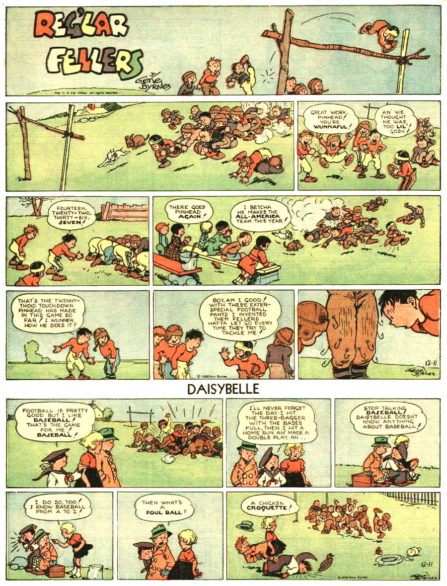 Copy of the comic strips Reg'lar Fellers and Daisybelle from 1938 A search was done for renewals in artwork for the years 1965 and 1966 There were no renewals for Gene Byrnes, Reg'lar Fellers or Daisybelle. There's no evidence that these comic strips are still under copyright.